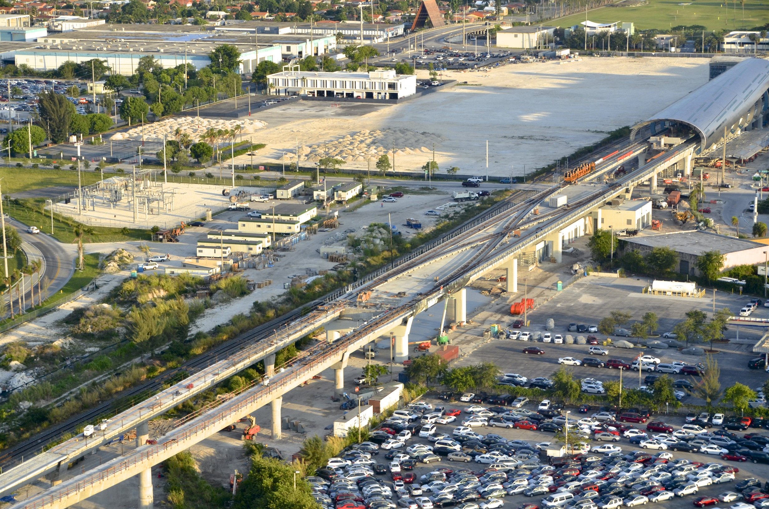 Construction of the Metrolink airport extension and Miami International Airport station, as of May 2011.